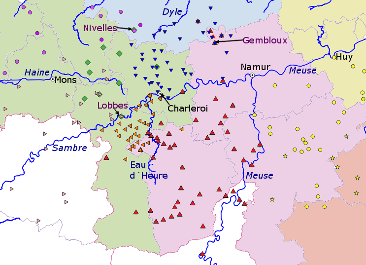 Red triangles are places recorded as being in Lommegau. Blue triangles were in Darnau. Orange were in the Sambre gau, which is also a part of the Lommegau. Purple circles are in the original Brabant. Green diamonds are in the Silva Carbaonaria. Pink triangles were in the original Hainaut. Yellow circles are in old Condroz, and yellow stars in old Famenne.